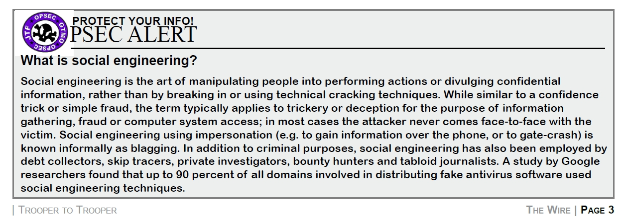 OPSEC ALERT PROTECT YOUR INFO! What is social engineering? Social engineering is the art of manipulating people into performing actions or divulging confidential information, rather than by breaking in or using technical cracking techniques. While similar to a confidence trick or simple fraud, the term typically applies to trickery or deception for the purpose of information gathering, fraud or computer system access; in most cases the attacker never comes face-to-face with the victim. Social engineering using impersonation (e.g. to gain information over the phone, or to gate-crash) is known informally as blagging. In addition to criminal purposes, social engineering has also been employed by debt collectors, skip tracers, private investigators, bounty hunters and tabloid journalists. A study by Google researchers found that up to 90 percent of all domains involved in distributing fake antivirus software used social engineering techniques.